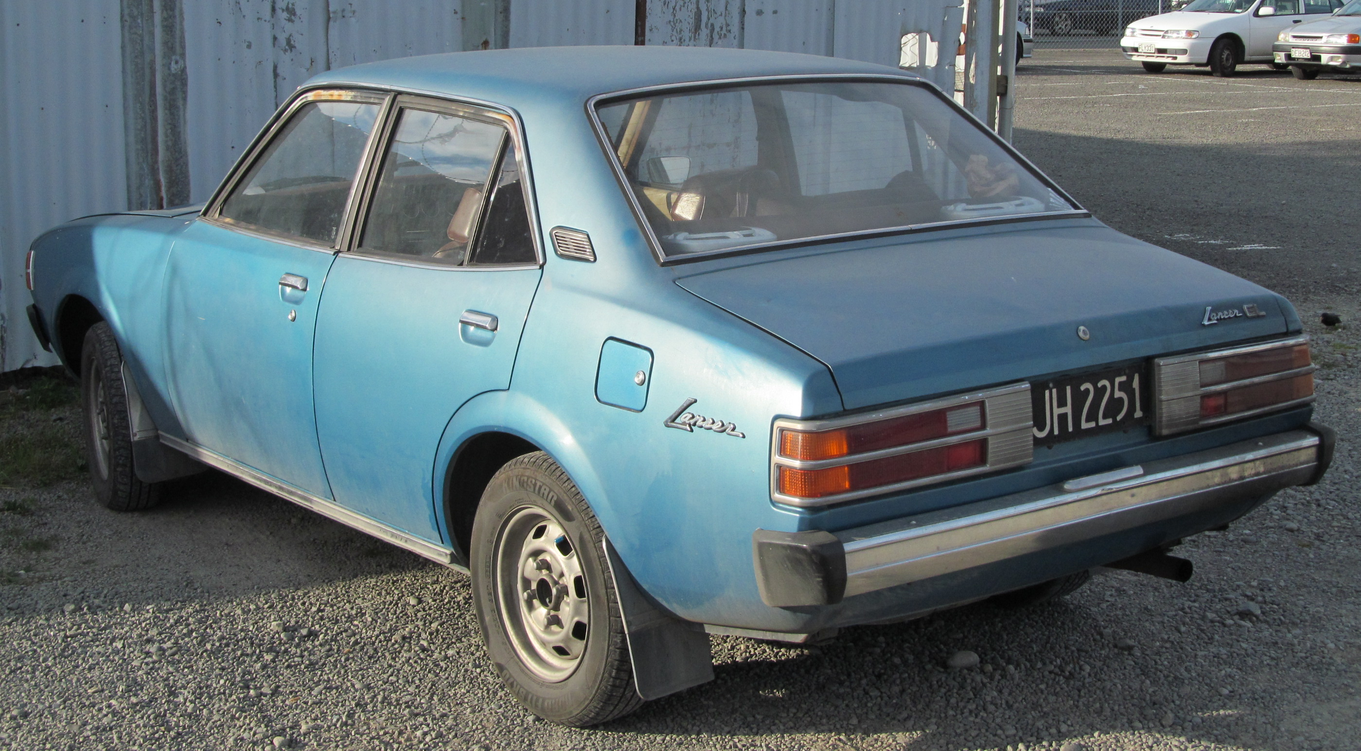 A tidy old Lancer spotted in an industrial area of Christchurch. These were locally assembled by Todd Motors, and were a popular alternative to the Datsun 120Y and Toyota Corolla.